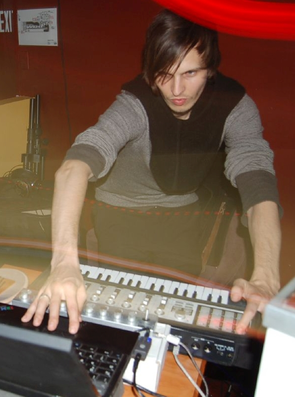 Pantha du Prince live at Rocket Bar, Boston on May 31, 2007 Depicted person: Pantha du Prince – German musician